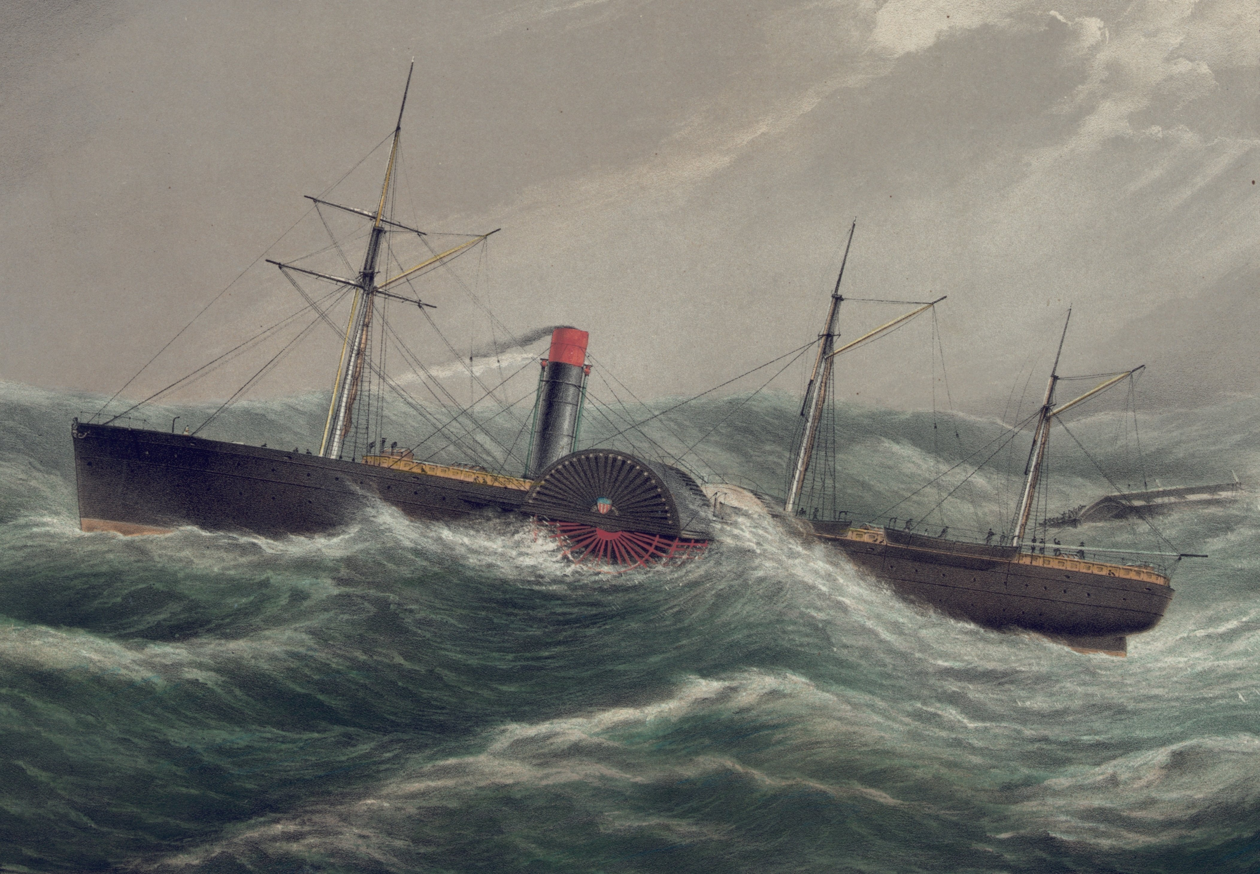 Detail from a lithograph of the United States Mail steamship SS Pacific (launched 1849). The original caption read: "United States Mail Steam Ship Pacific Captn. L. Blye[?] rescuing the crew of the barque Jesse Stevens by means of Francis metallic life boat, during a heavy gale Dec. 4th 1852 in Lat. 48, Lon. 40."